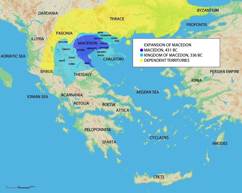 Macedon during the Peloponnesian War, around 431 BC, and during the early Hellenistic period, around 336 BC, at the death of Phillip II of Macedon